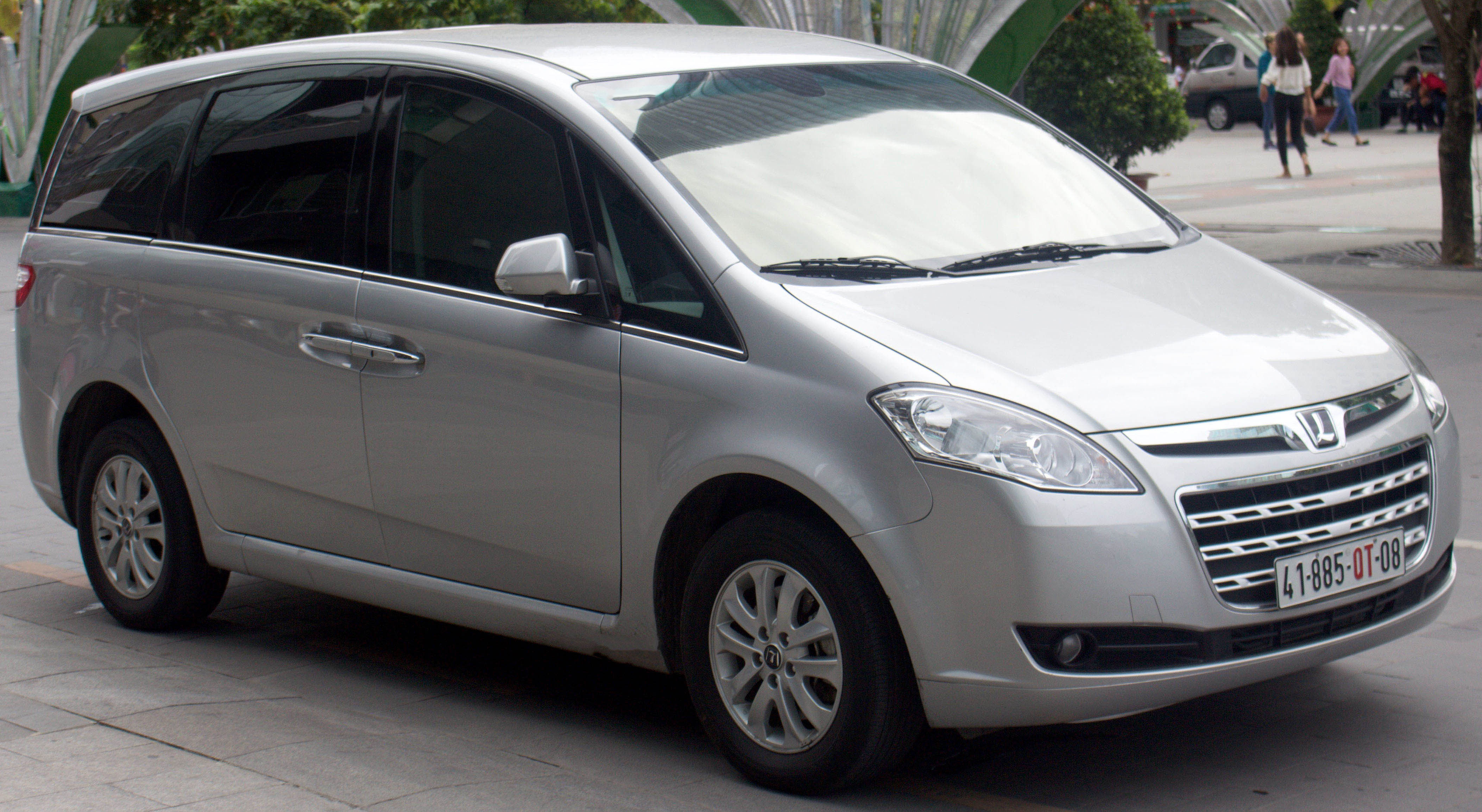 Luxgen7 2.2 MPV in Ho Chi Minh, Vietnam